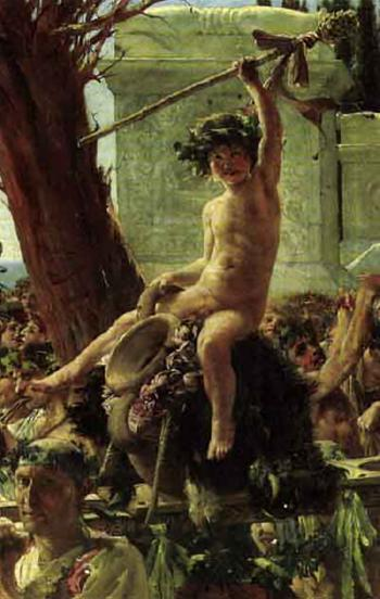 Bacchus depicted as a child, being carried through the streets in a triumphal procession. He sits upon a wild boar, festooned with blossoms, and above his head he holds a thyrsus.